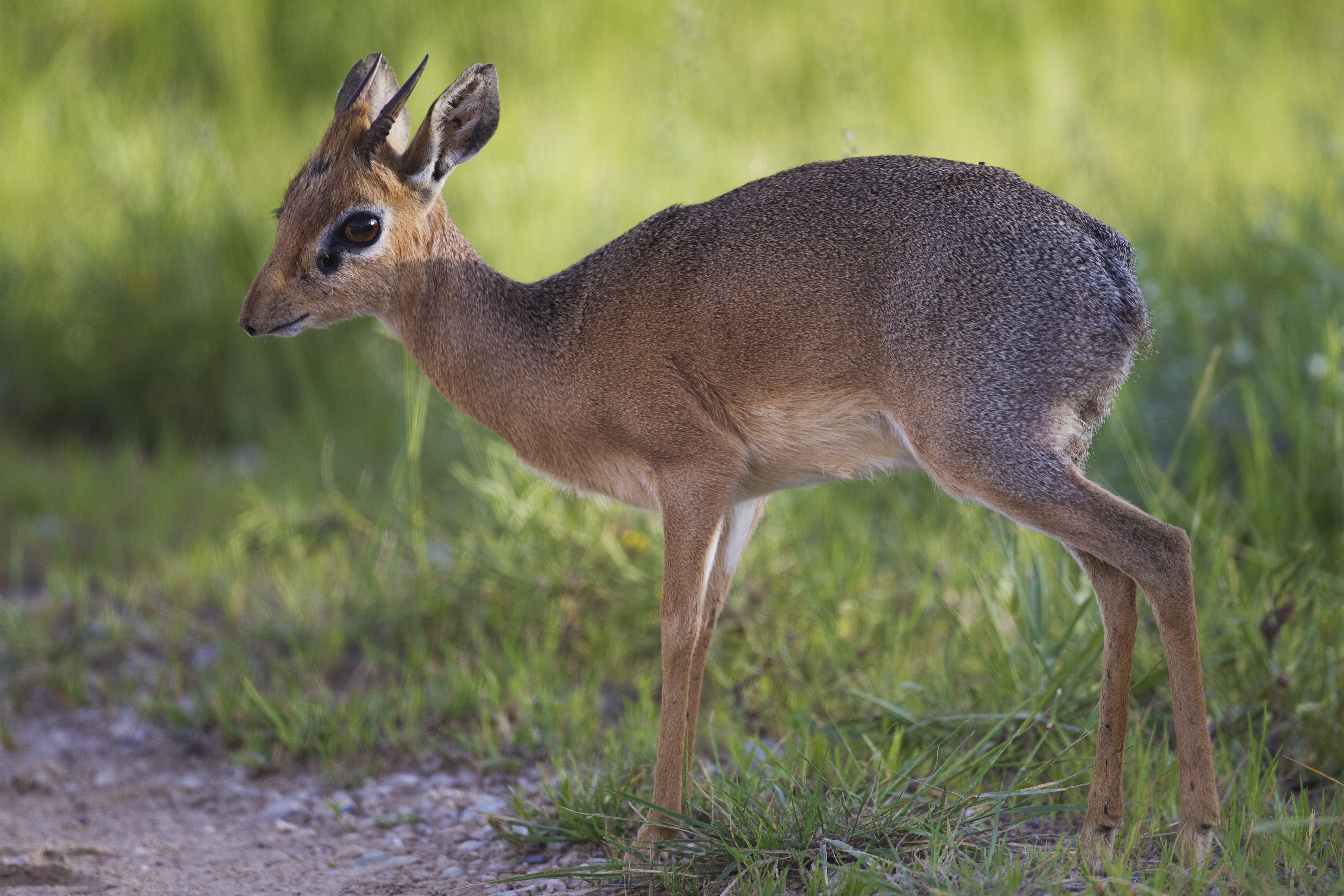 Damara dik dik in Etosha National Park, Namibia